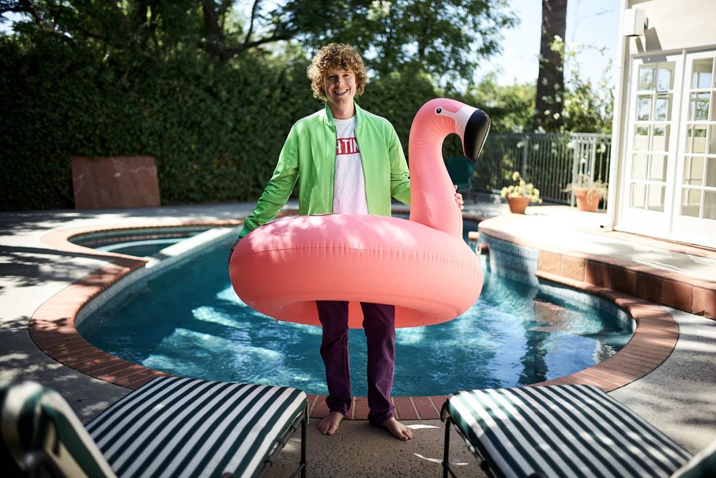 D.A. Wallach in Los Angeles in 2017.